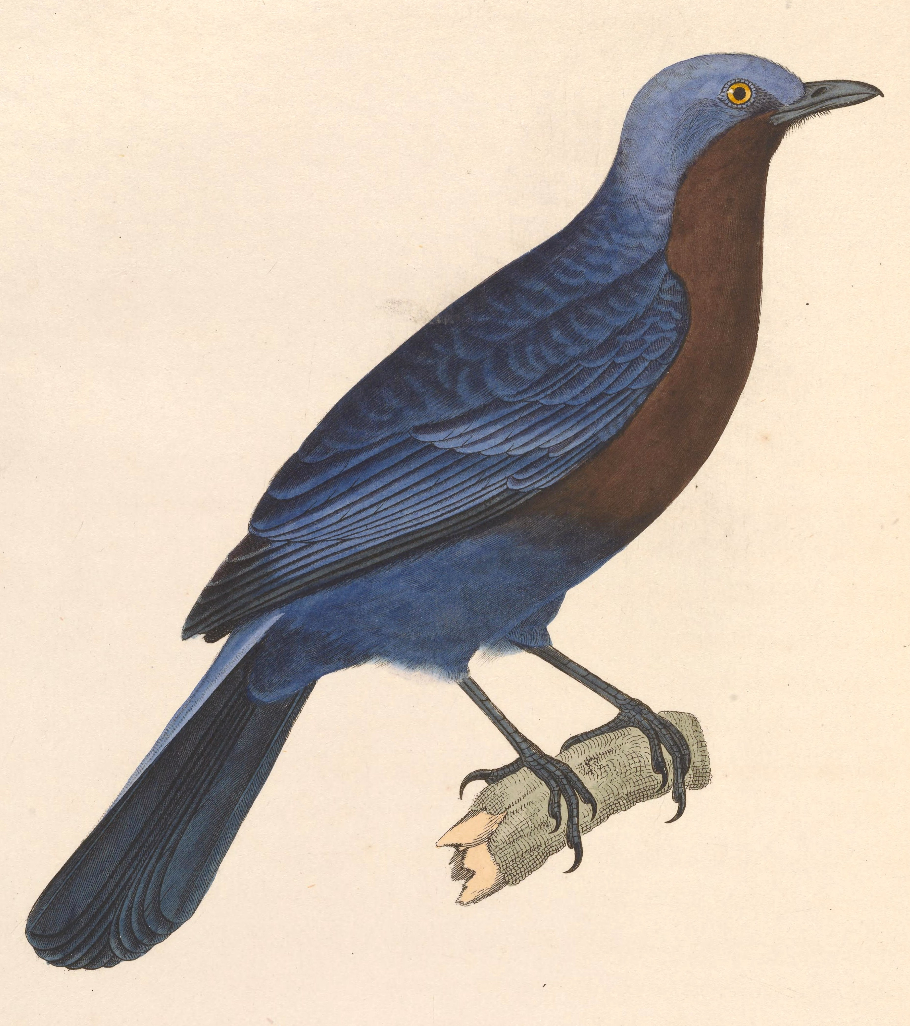 « Turdus azureus » = Cochoa azurea (Javan Cochoa) - adult male